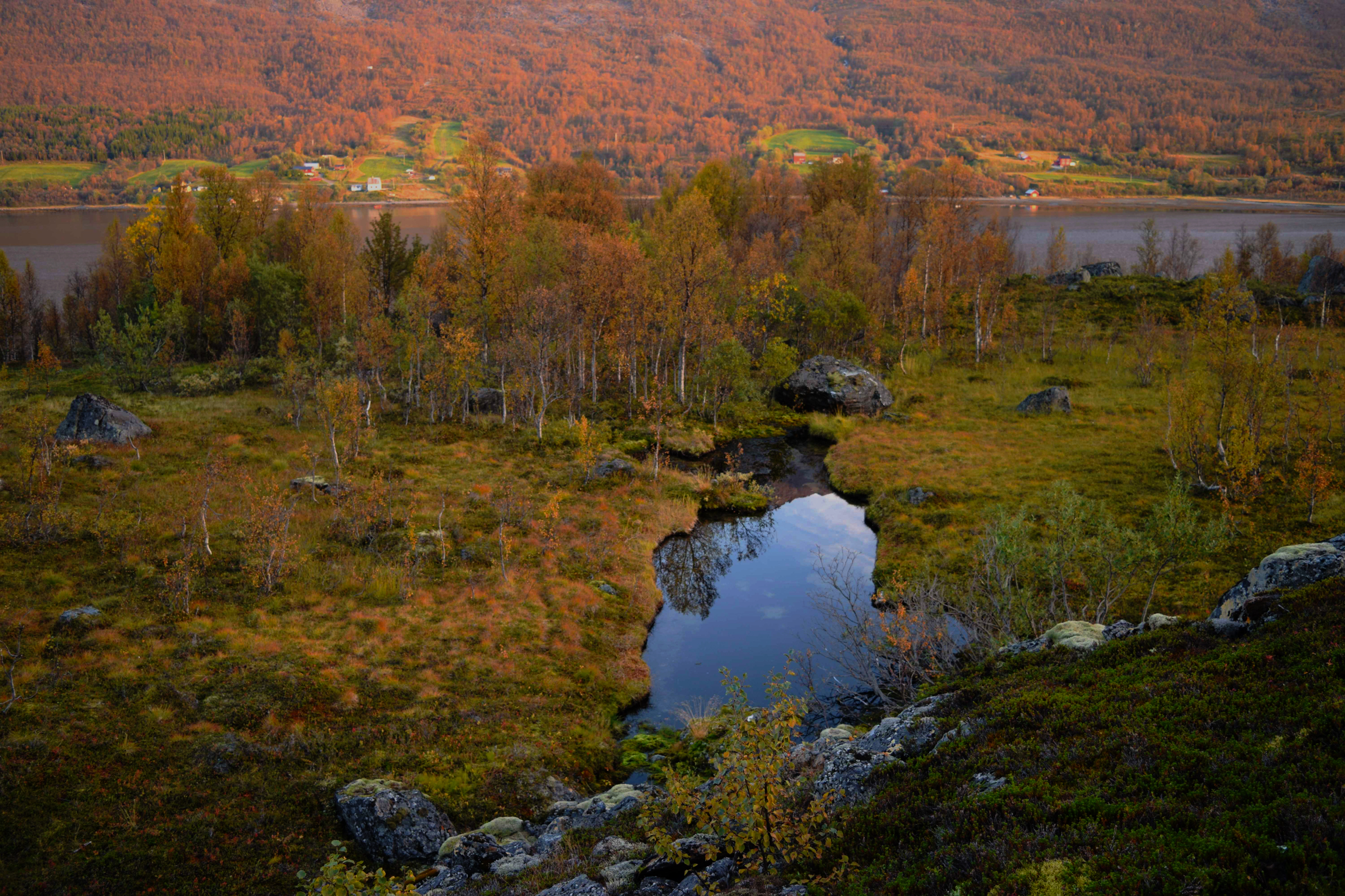 Jietanasdievval, a Sami sacred spring Troms, Tromsø